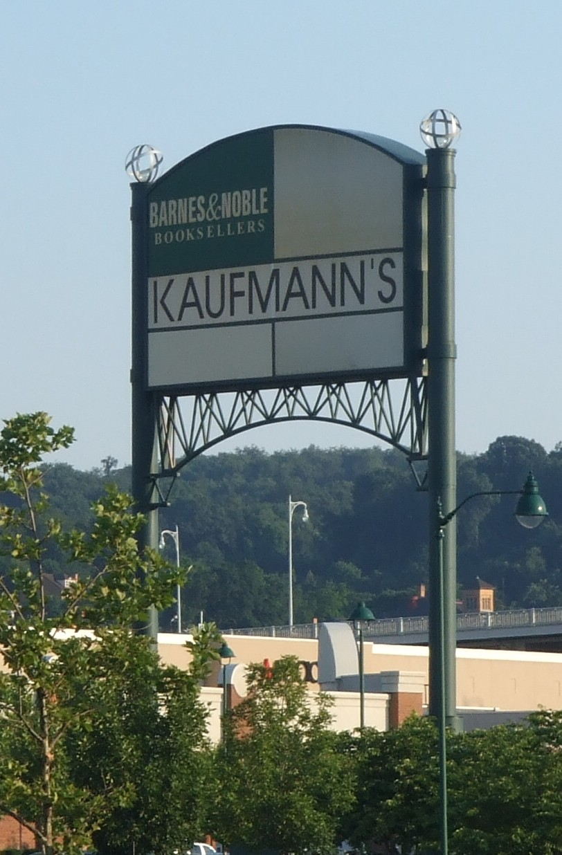 A picture, taken by me in July 2007, of a Macy's located at The Waterfront in Pittsburgh.